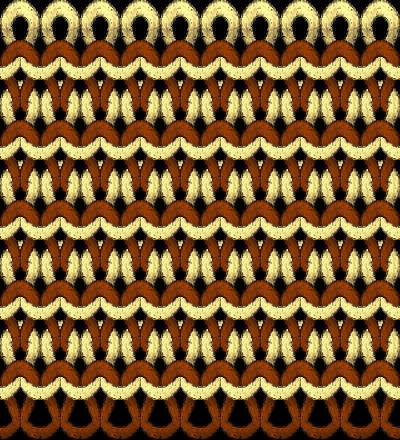 حسام هطلاني